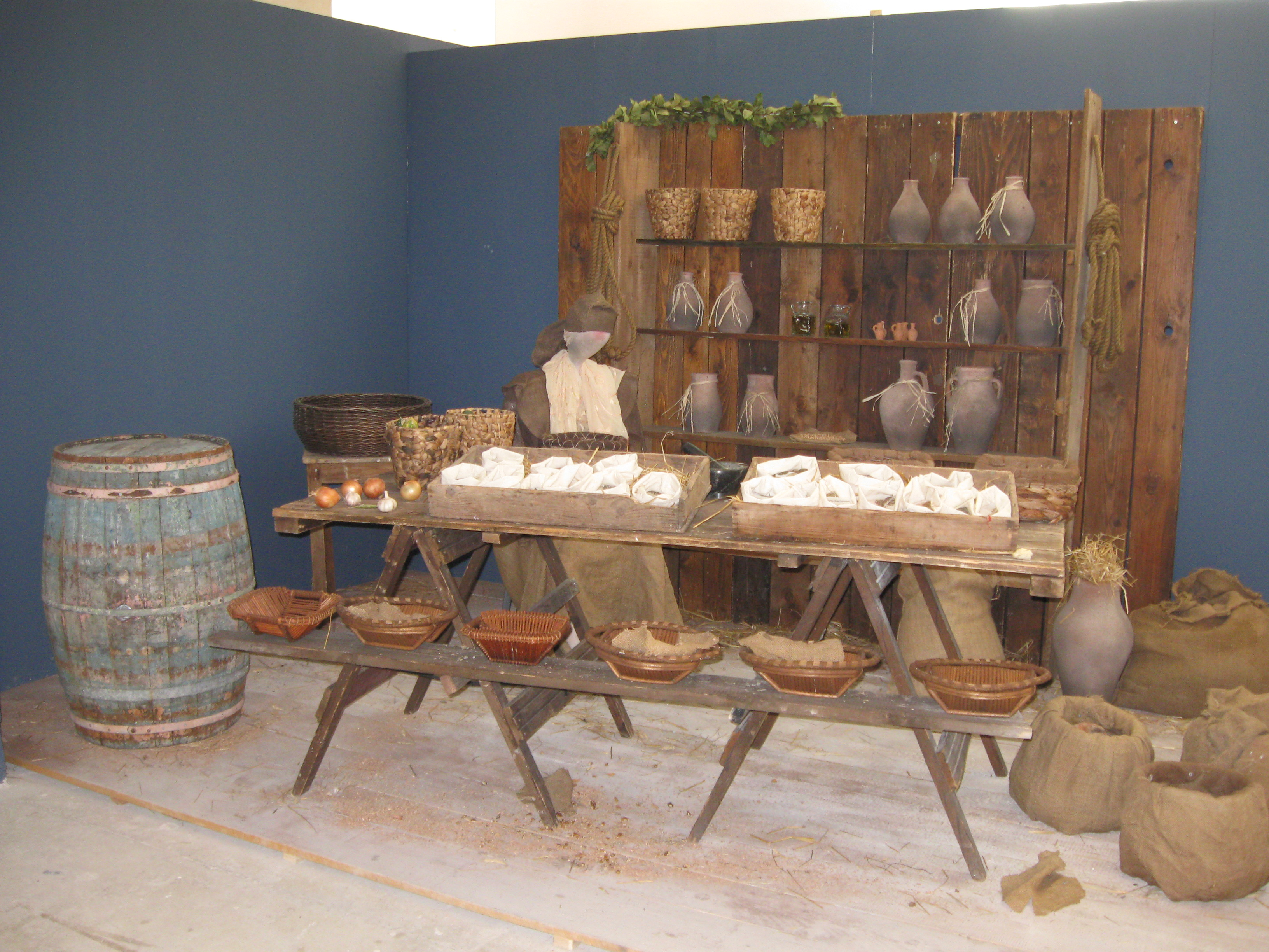 Archeological museum of Zadar. Underwater Archaeology Department